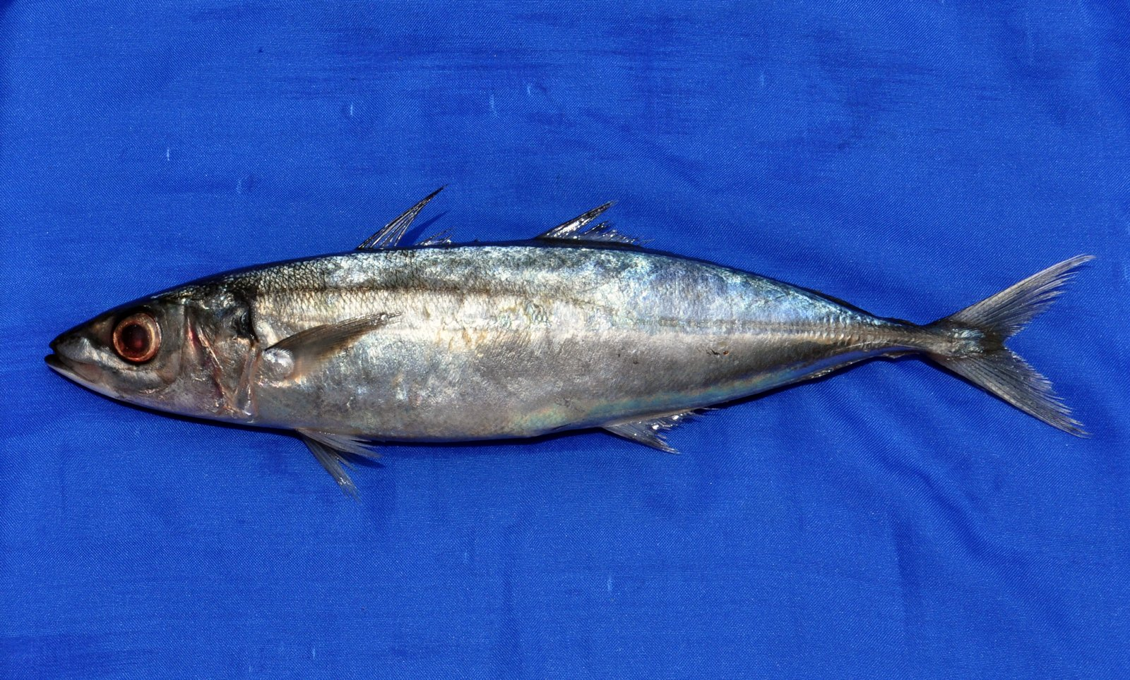 Decapterus macarellus from traditional market in Bogor, West Java, Indonesia.